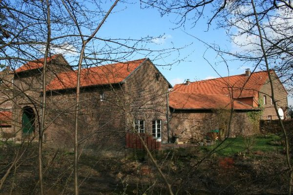 Cultural heritage monument No. 38 in Hückelhoven